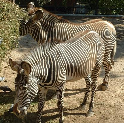 Grevy's Zebra.